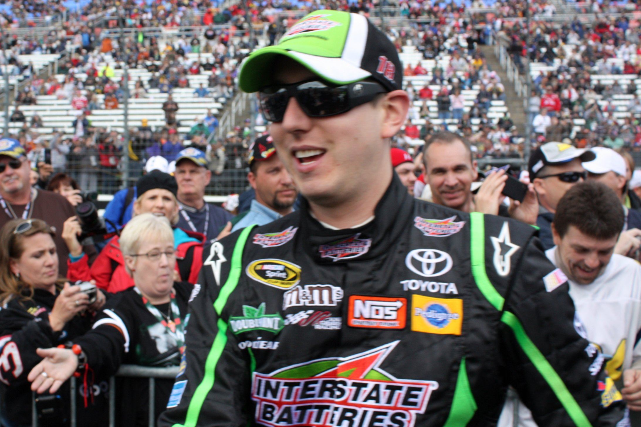 Kyle Busch on April 19, 2010